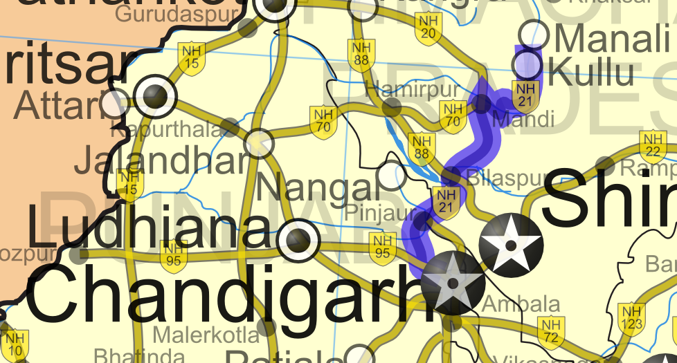 Map showing the national highway network in India. Includes NHDP projects upto phase IIIB which is due to be completed by December 2012. For actual progress of the NHDP refer to the maps below.